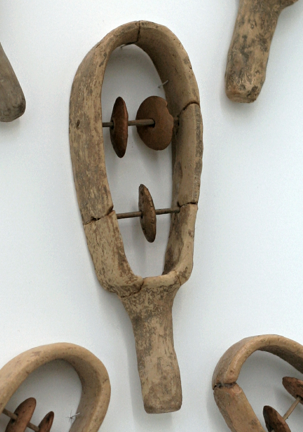 Clay sistra. Agios Charalambos cave on Lasithi, 1800-1050 BC. Archaeological Museum of Agios Nikolaos